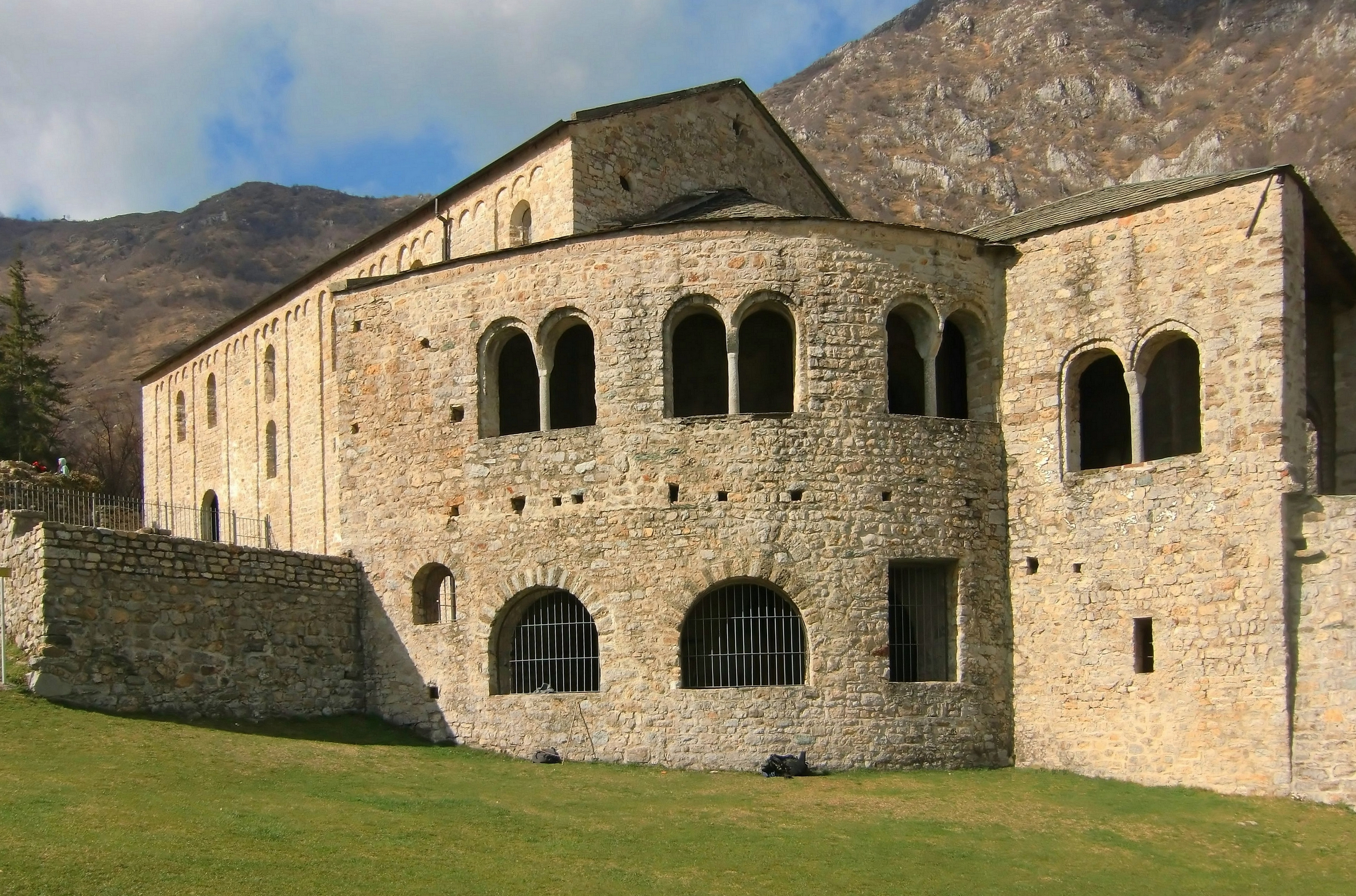 San Pietro al Monte church, Civate (Italy), view of the porch and the south side of the church